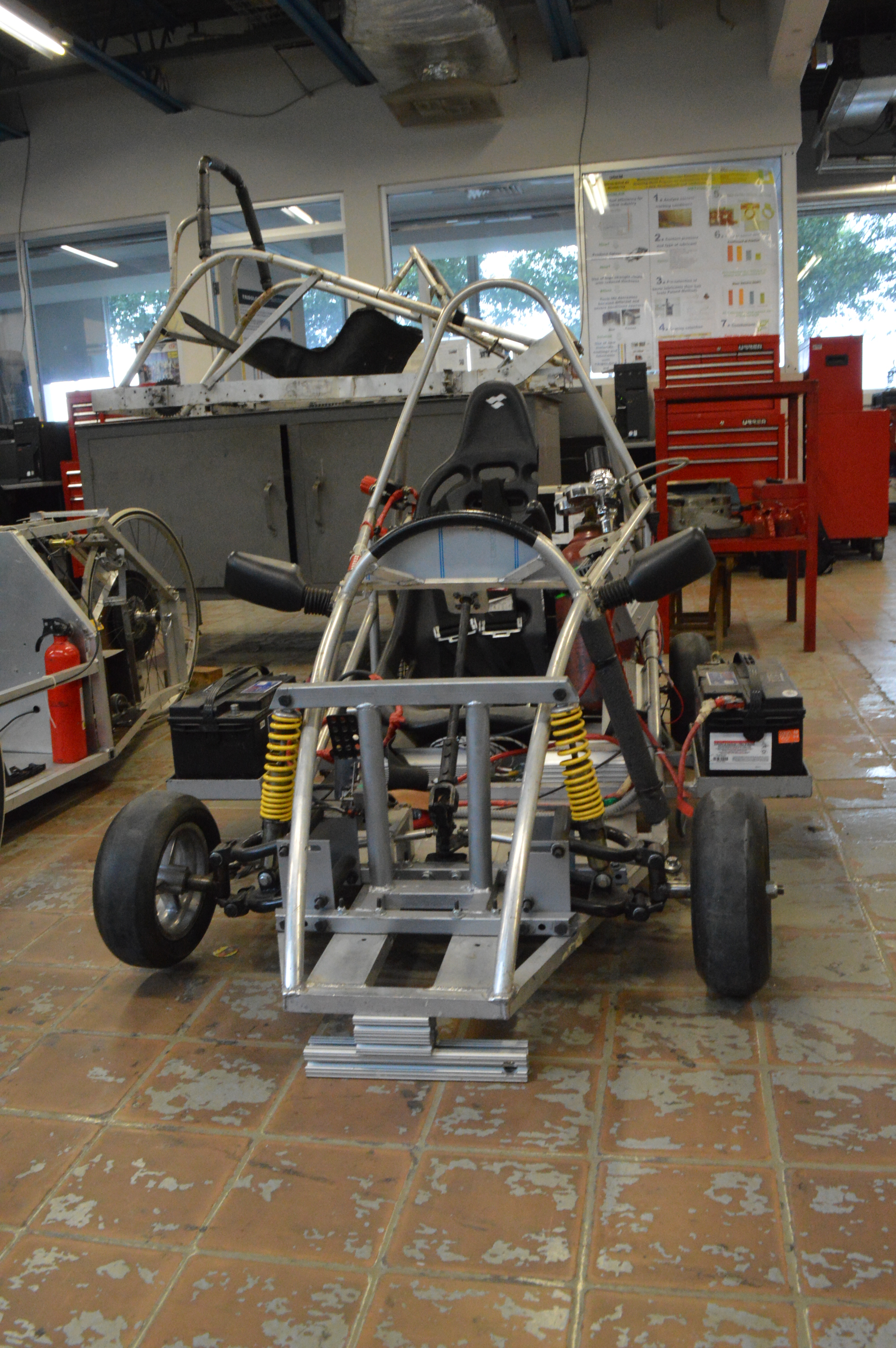 El primer vehículo en México impulsado 100 por ciento por hidrógeno.